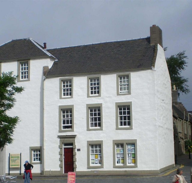 Cross House The building does not look like the Church Hall it is.